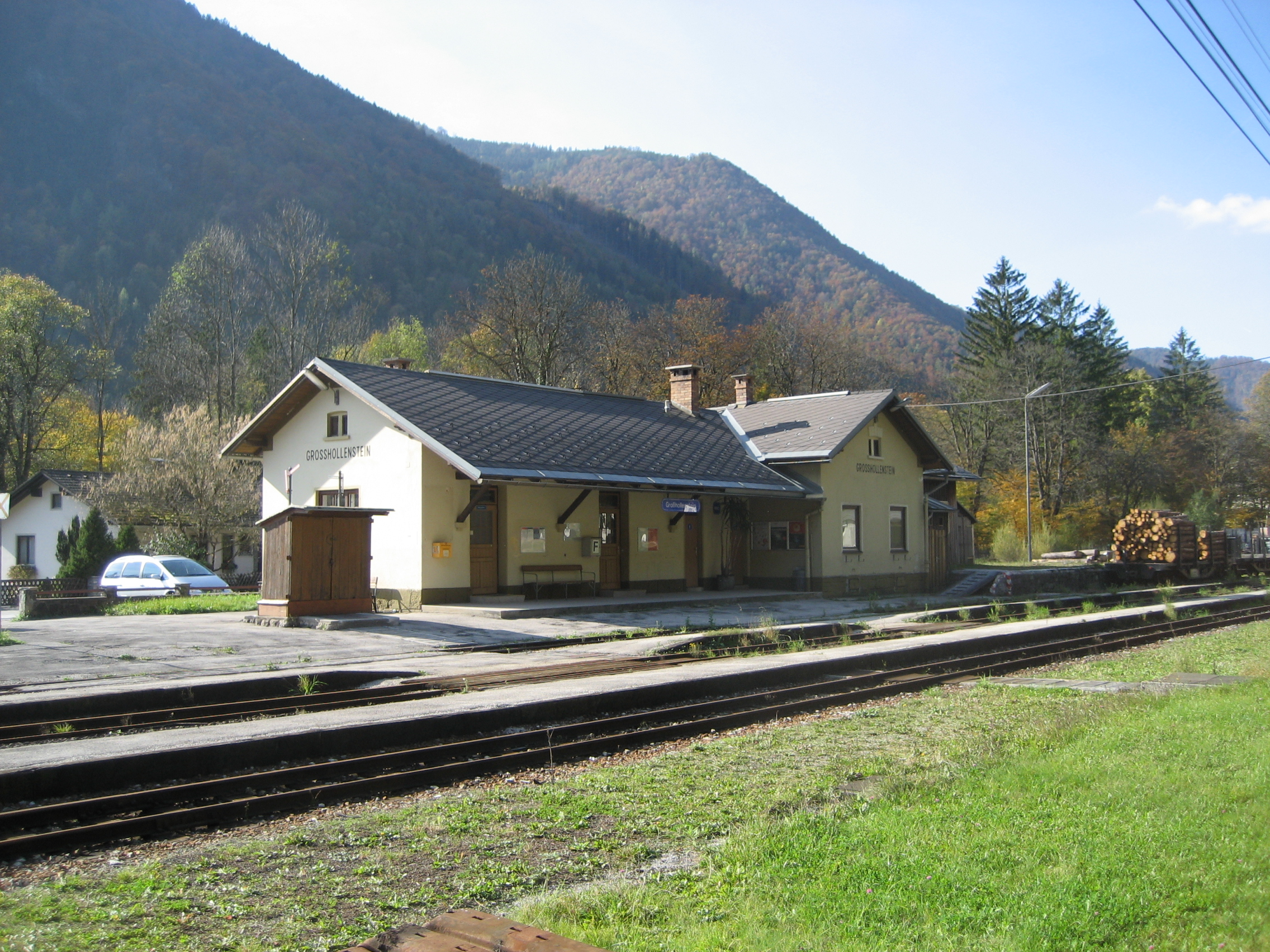 Grosshollenstein train station in Lower Austria, Ybbstalbahn